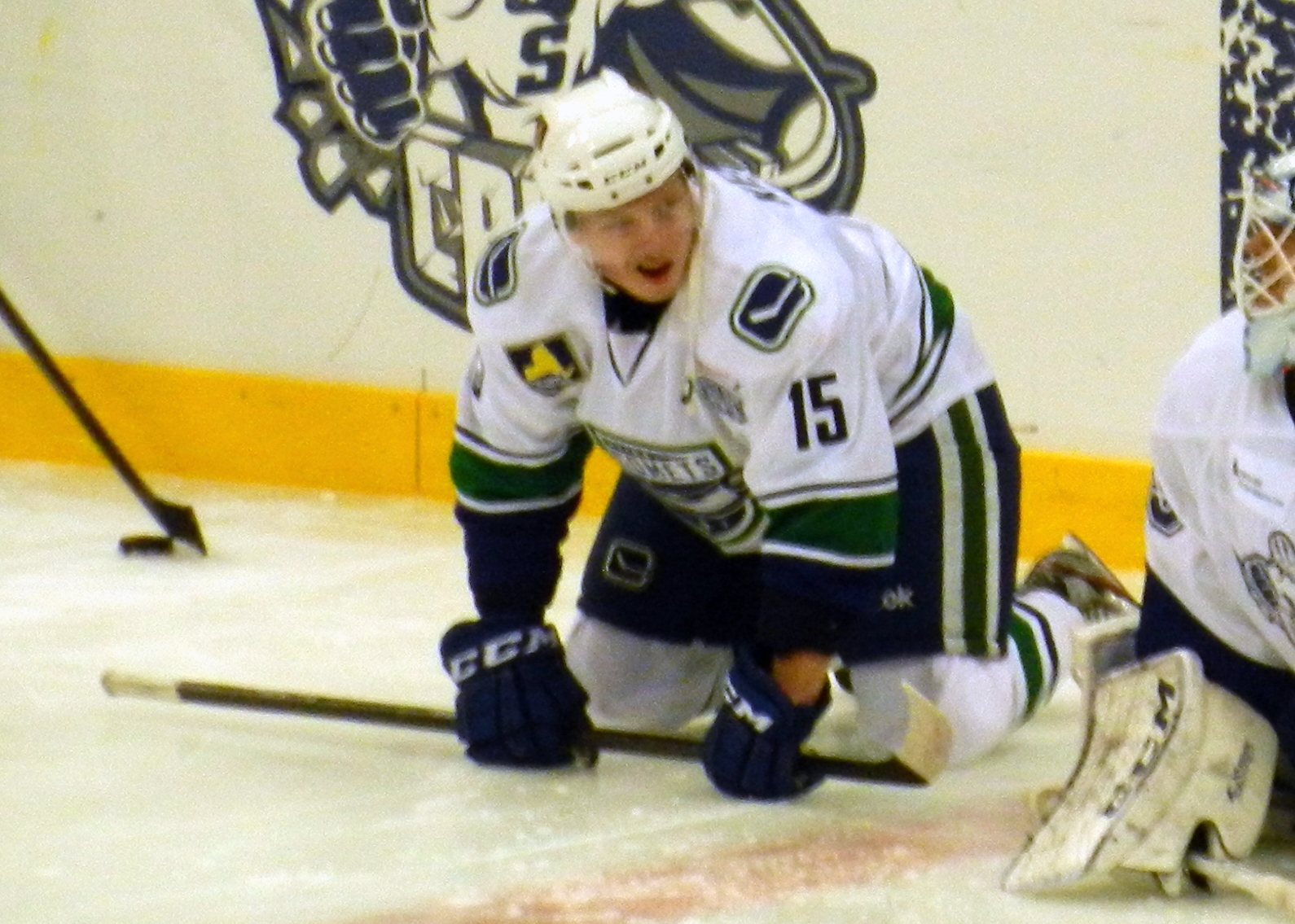 Ronalds Kenins during warm-ups with the AHL's Utica Comets before the Frozen Dome Calssic in 2014